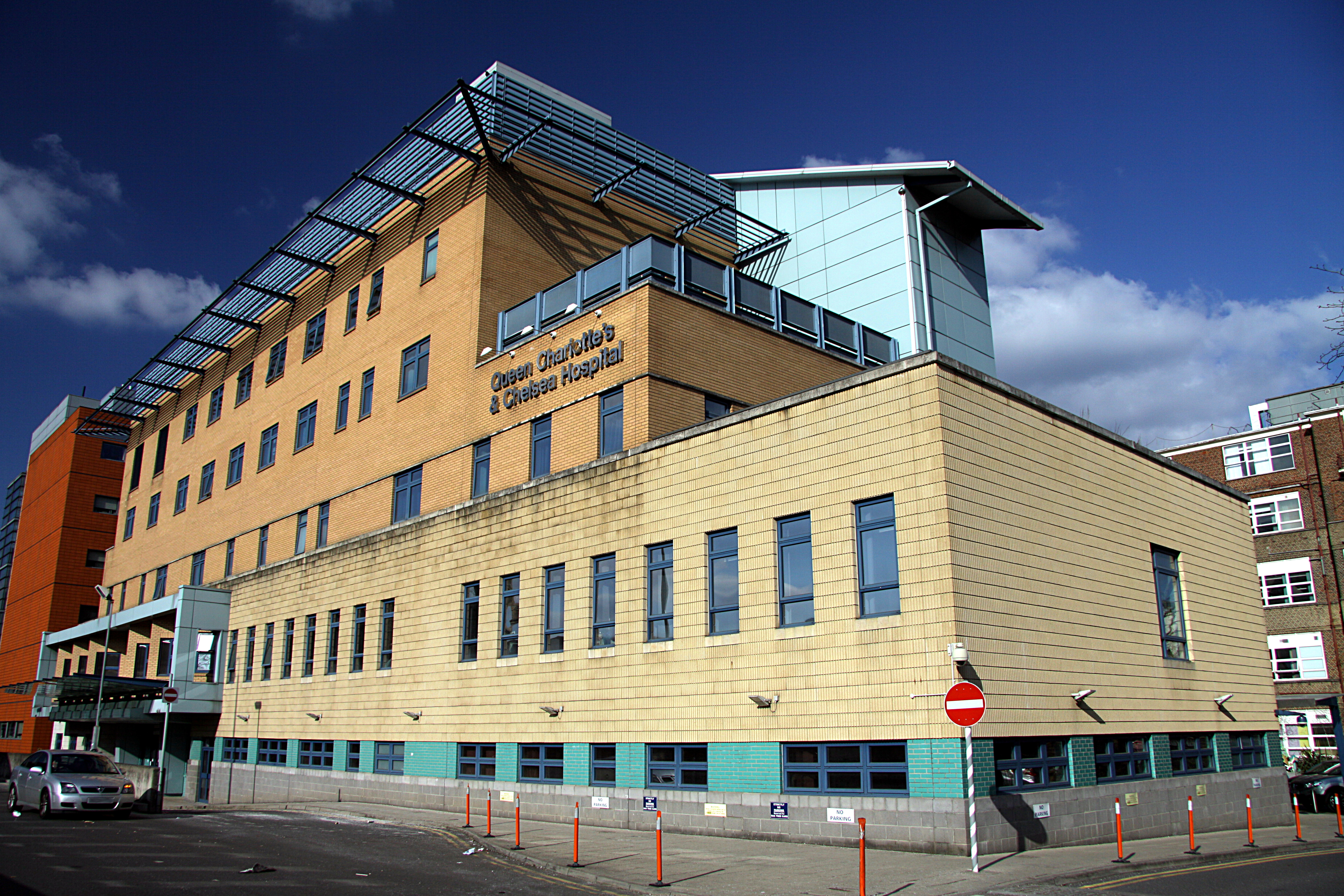 Queen Charlotte's and Chelsea Hospital in London, England, Great Britain